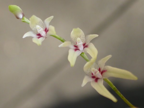 Anathallis